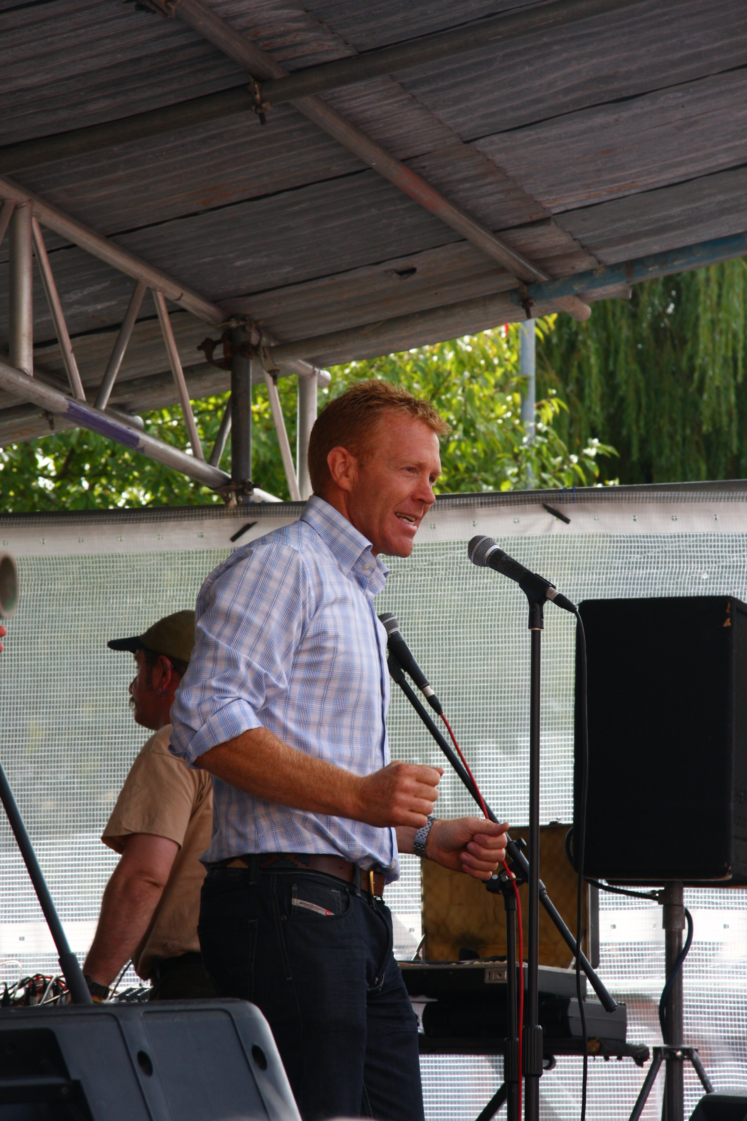 Adam Henson at Newent Onion Fayre 2010